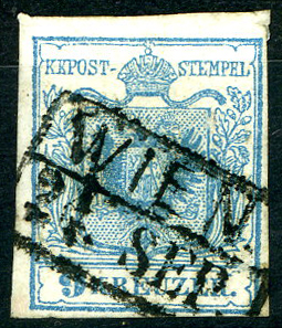 9 kreuzer Issue I Wien